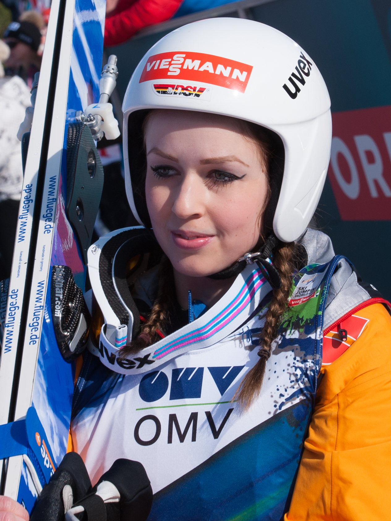 FIS Ski Jumping World Cup Hinzenbach Sun 1 Feb 2015